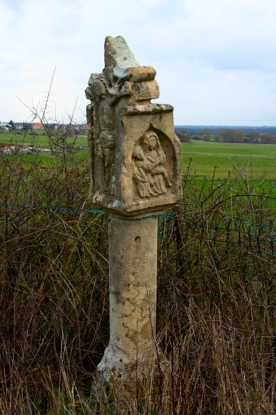 Bildstock near Oeutrange (Moselle - France)